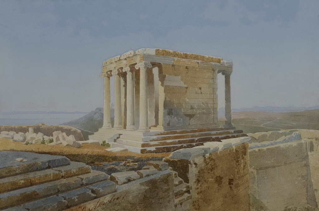 Temple of Athena Nike- 1870